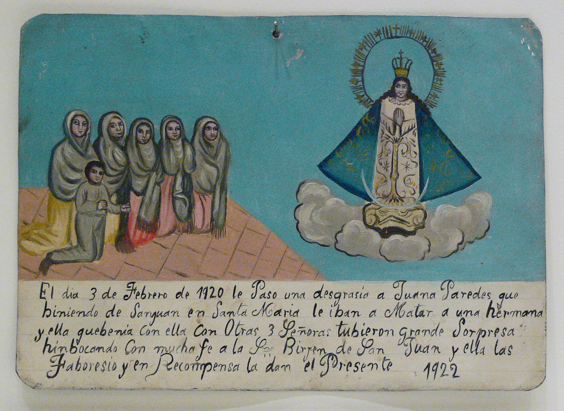 Tropenmuseum Amsterdam Votive painting for Our Lady of San Juan de los Lagos, Mexico